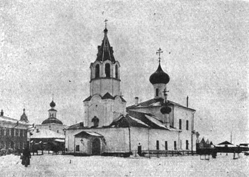 Russia, Vologda, Kazan Church